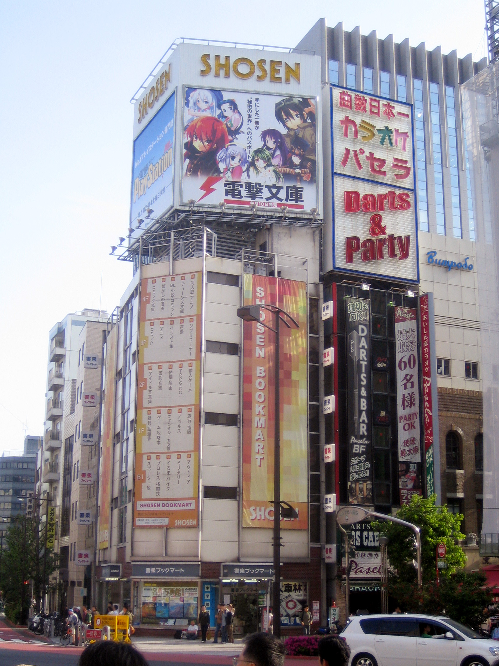 bookstore "Shosen Bookmart", at Kanda-Jinbocho (Kanda-Jinbōchō), Chiyoda, Tokyo, Japan